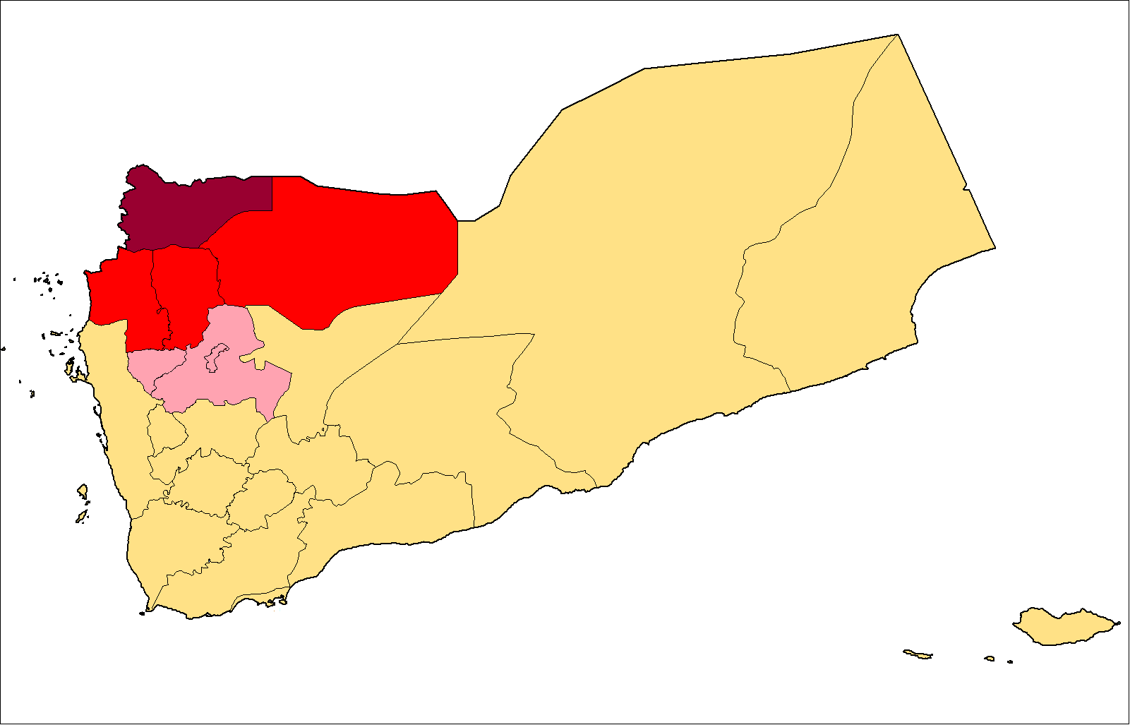 Governorates with Houthi activity (2010)